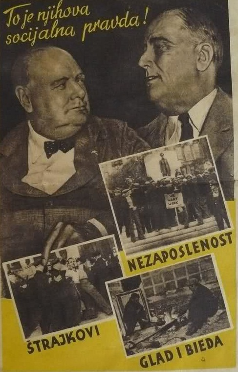 NDH propaganda poster against capitalism